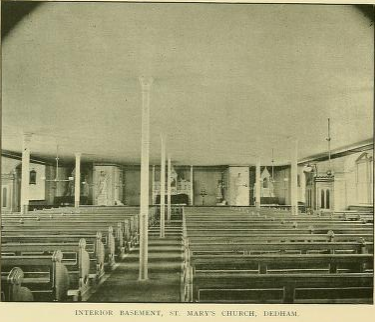 A view of the basement of St. Mary's Church in Dedham, Massachusetts looking towards the altar